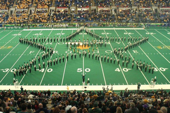 The 2010 NDSU GSMB in the star form